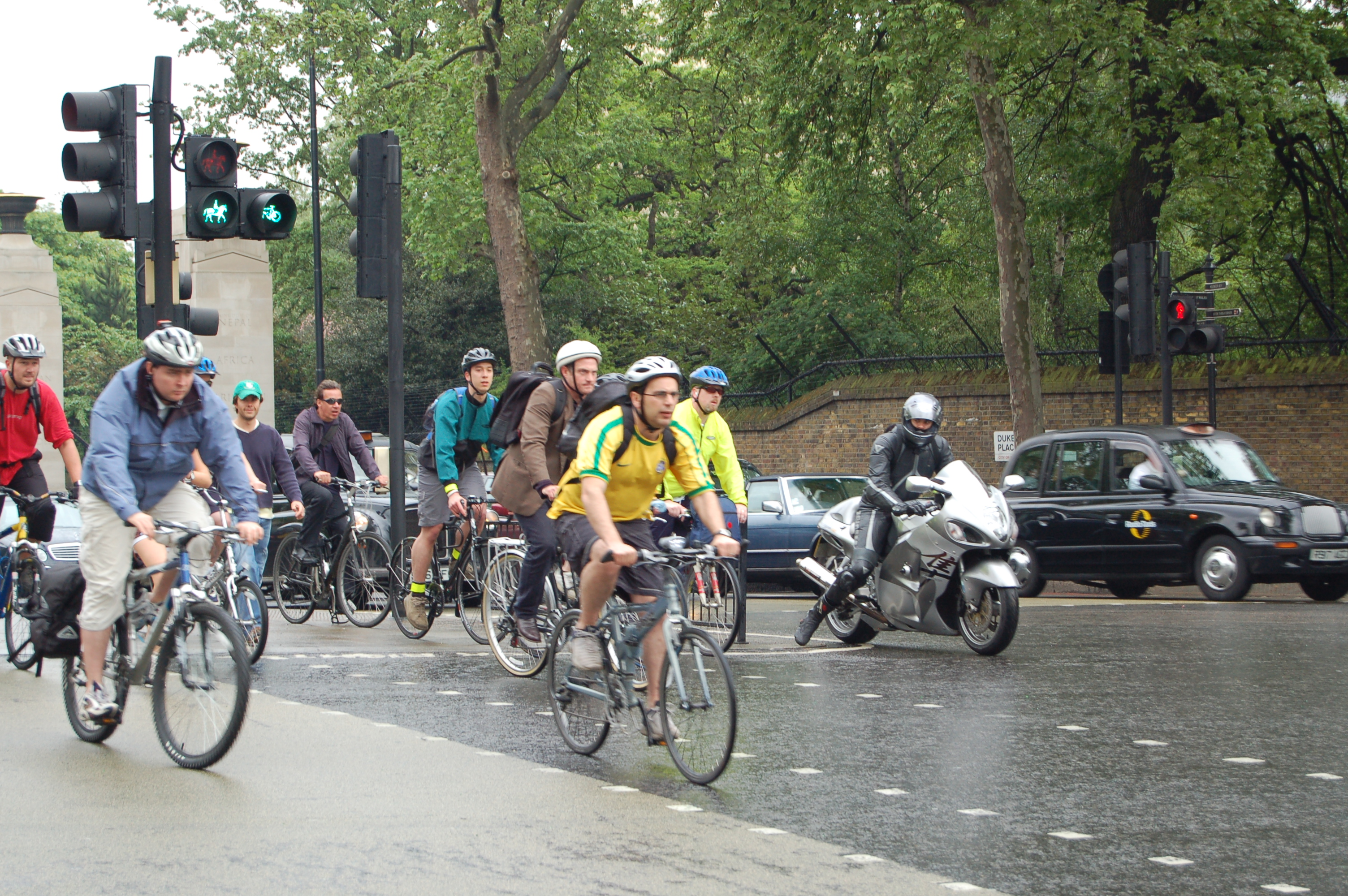 (C), 2006, Gerry Lynch. Cyclists use a purpose-built cut through of the complex Hyde Park Corner roundabout in London.